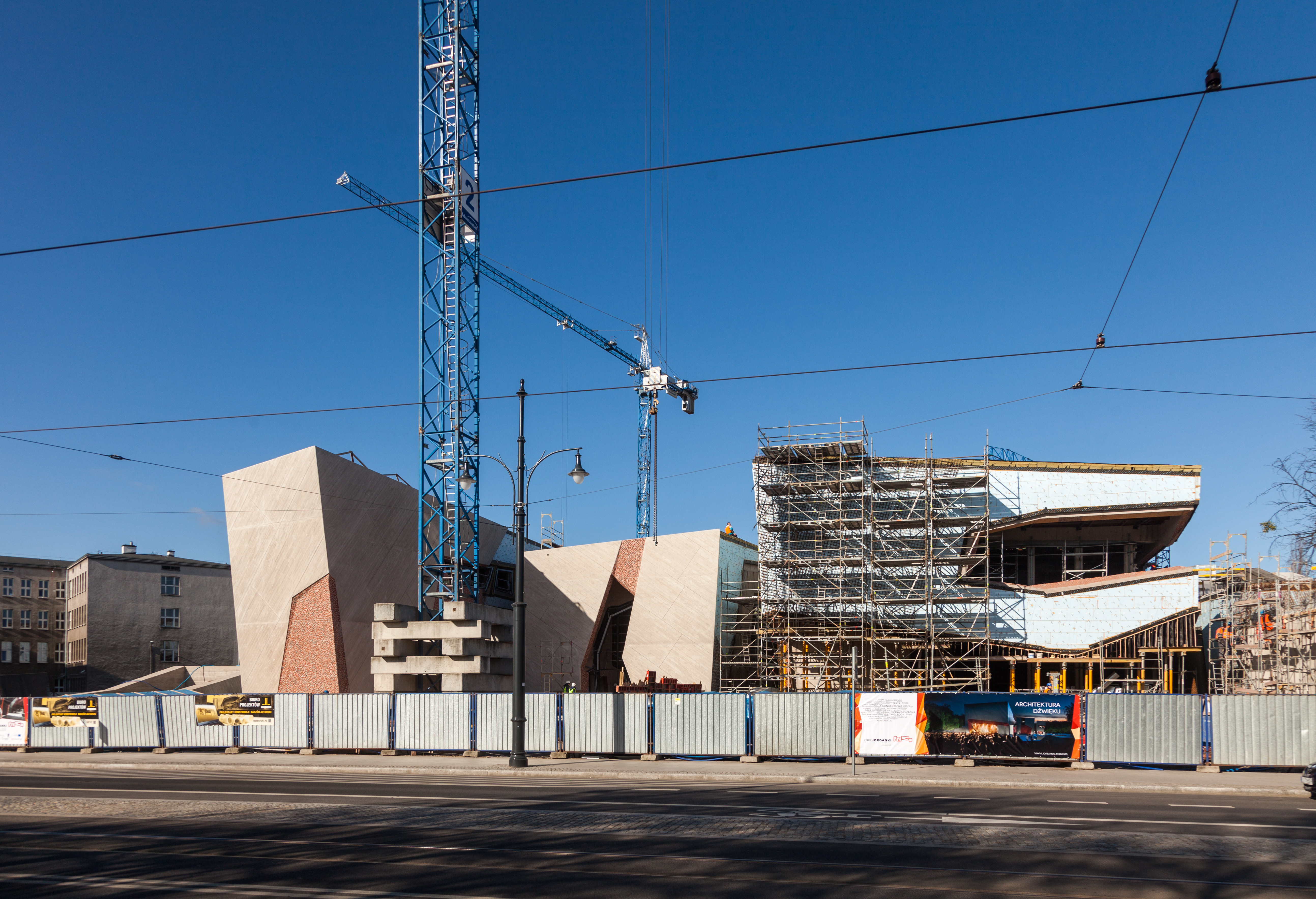 Conference and Cultural Centre "Jordanki" in Toruń under construction.